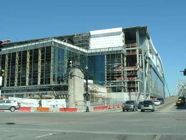 Louisville Arena construction on March 25, 2010